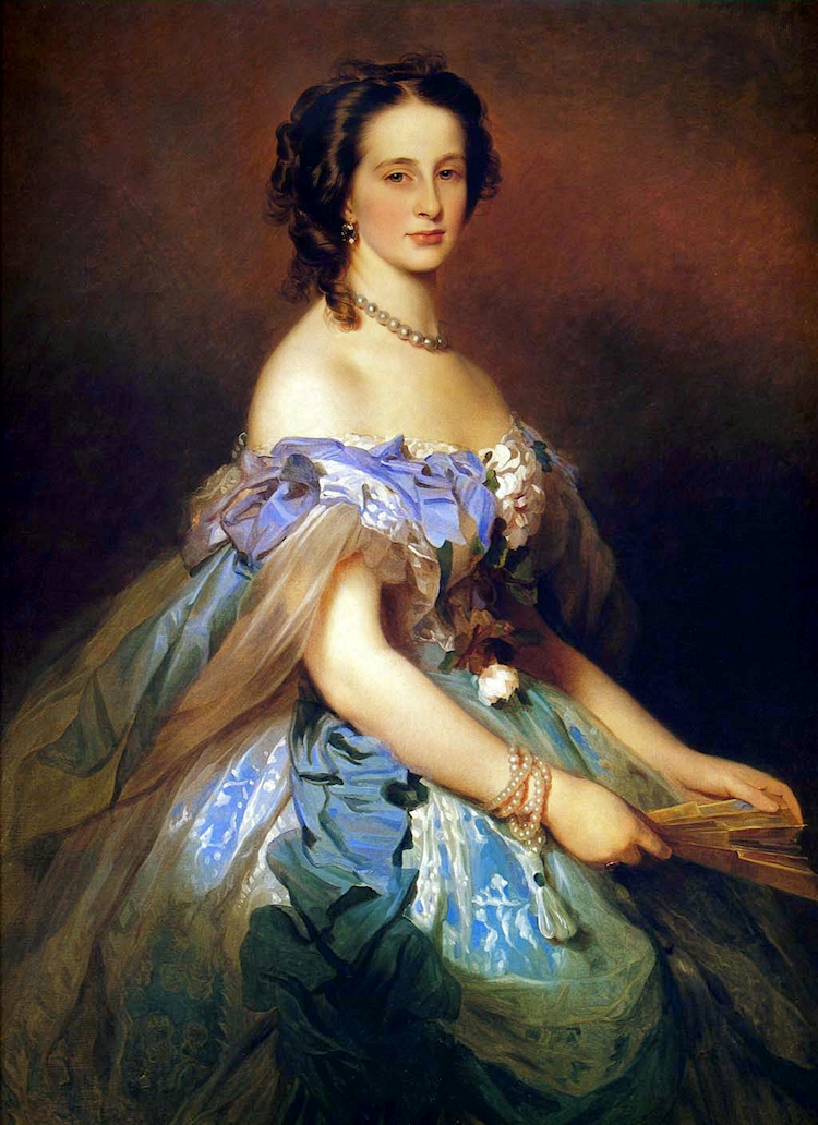 Grand Duchess Alexandra Iosifovna, née Princess of Saxe-Altenburg, wife of Grand Duke Konstantin Nikolaevich, 1859.